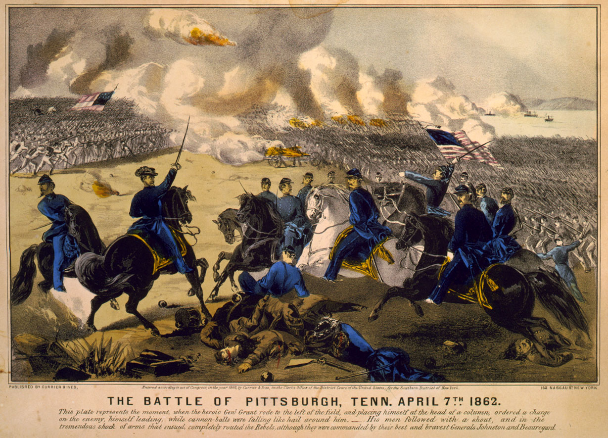 General Ulysses S. Grant leading a charge on the Rebels at Pittsburgh, Tennessee (Battle of Shiloh). Cropped from Library of Congress original.